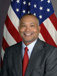 US Department of State portrait of Alexander Arvizu, United States Ambassador to Albania.